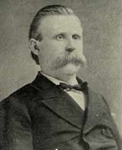 John A. Roche (August 12, 1844 – February 10, 1904; buried in Rosehill Cemetery) served as mayor of Chicago, Illinois (1887–1889) for the Republican Party.